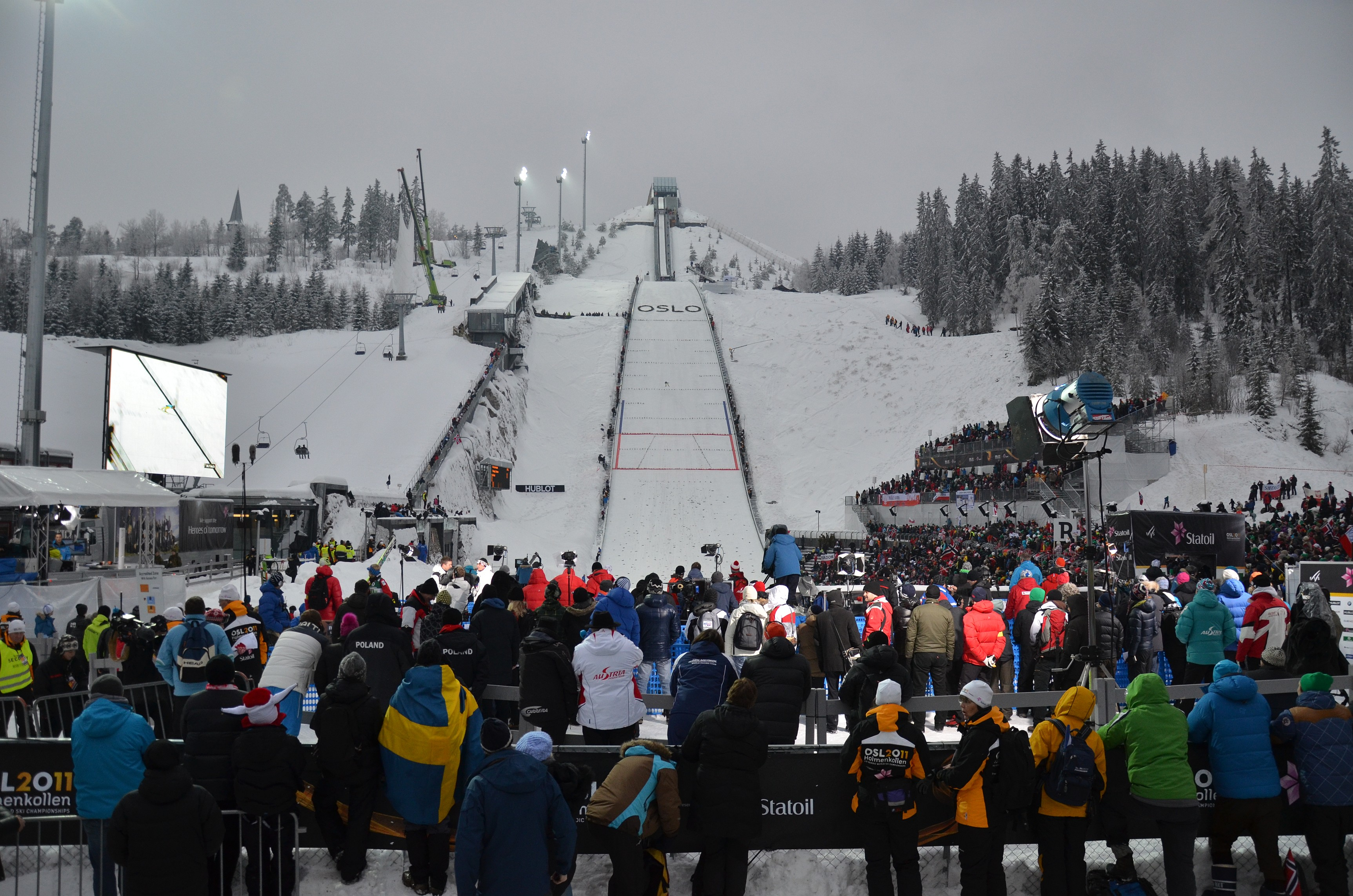 Midtstubakken during the FIS Nordic World Ski Championships 2011 in Oslo